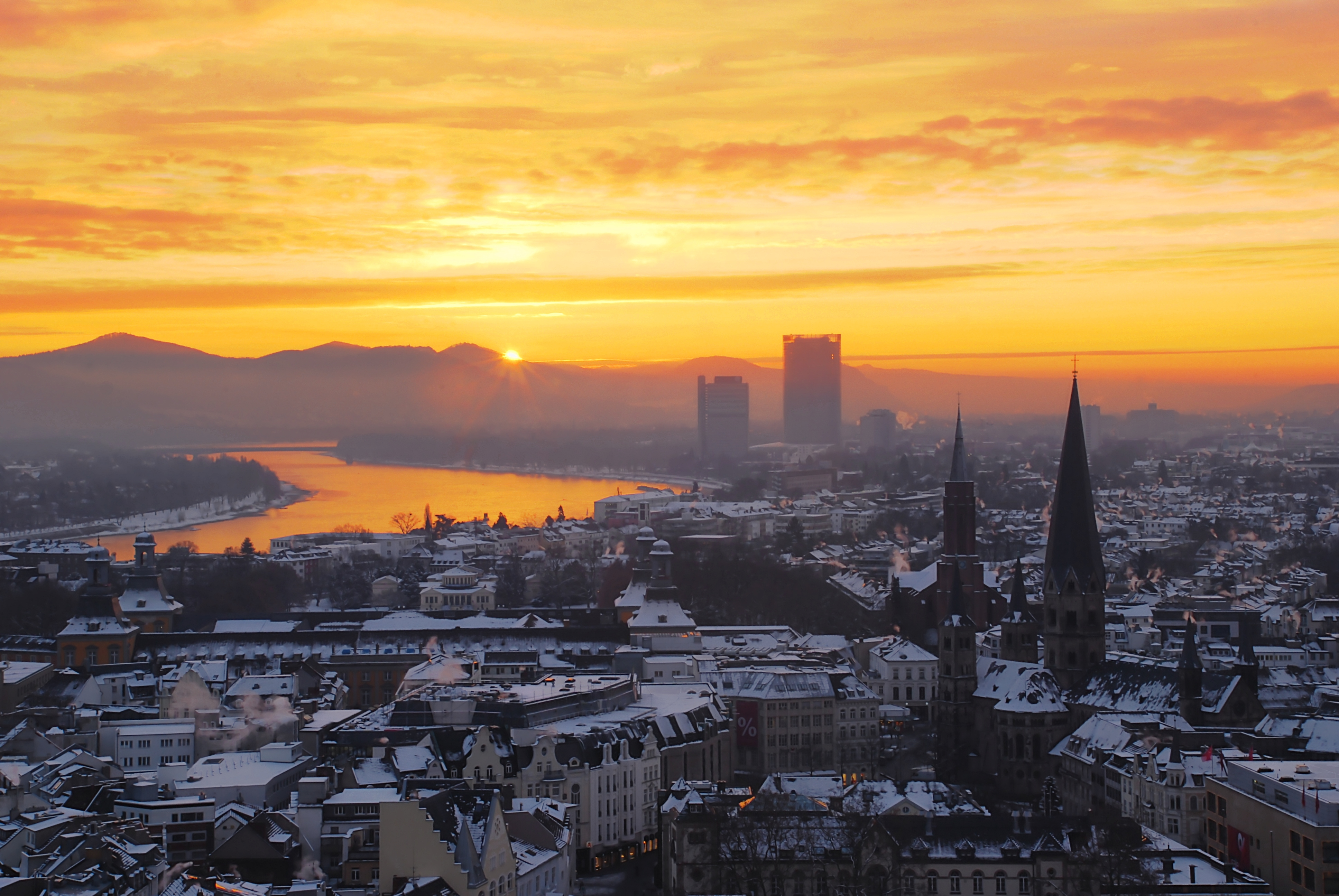 Sunrise above the snow-covered city centre of Bonn, Germany.